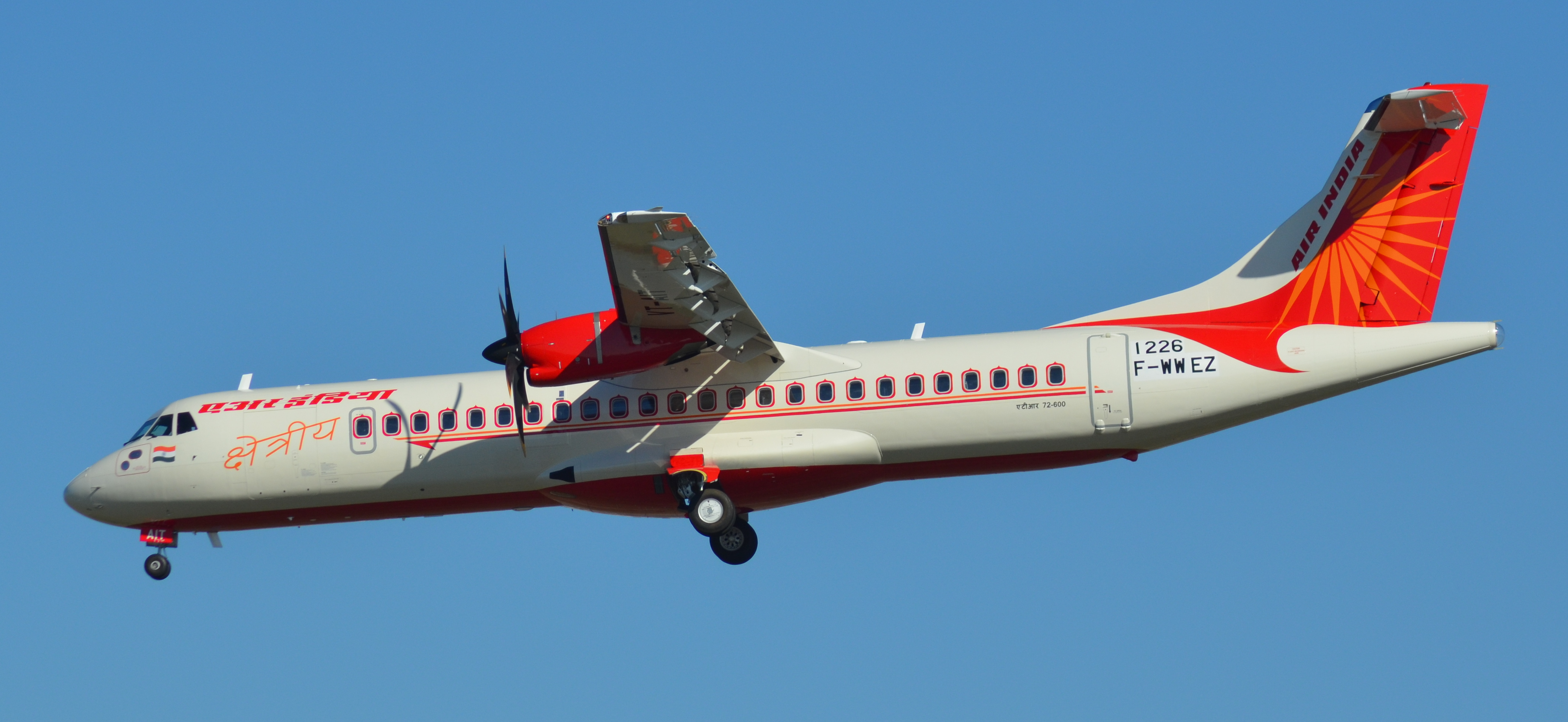 ATR.72-600 AIR INDIA EXPRESS F-WWEZ 1226 TO VT-AIT 10 02 15 TLS